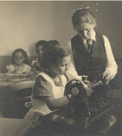 sewing lesson, Education in Israel